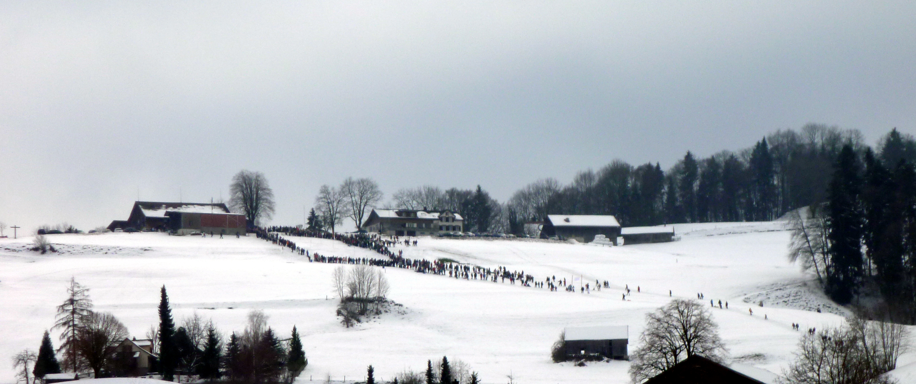 Nostalic ski race at the Eppenberg on 1st of January, 2011